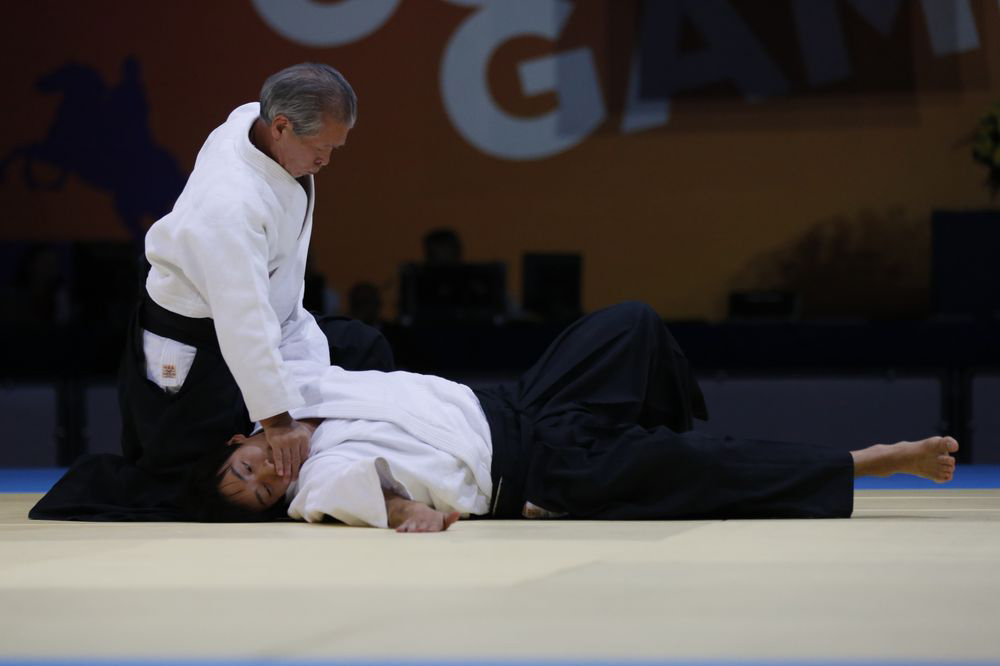 Miyamoto Tsuruzo Sensei subdues his uke without injury